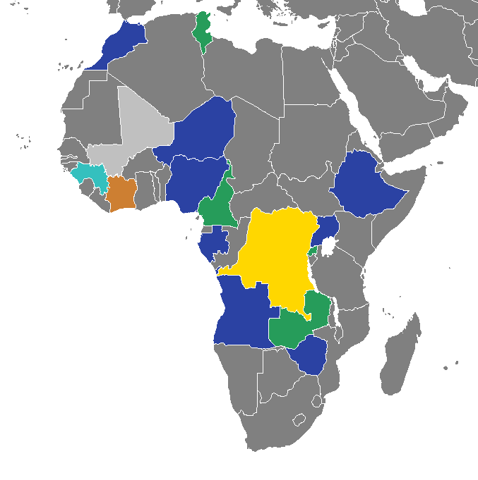 This map show the results of participants countries in the 2016 CHAN. – Champions – Runners-up – Third place – Fourth place – Eliminated in Quarter-finals – Eliminated in Group stage